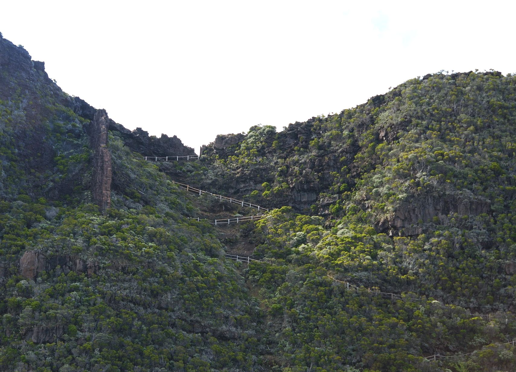 Bellecombe